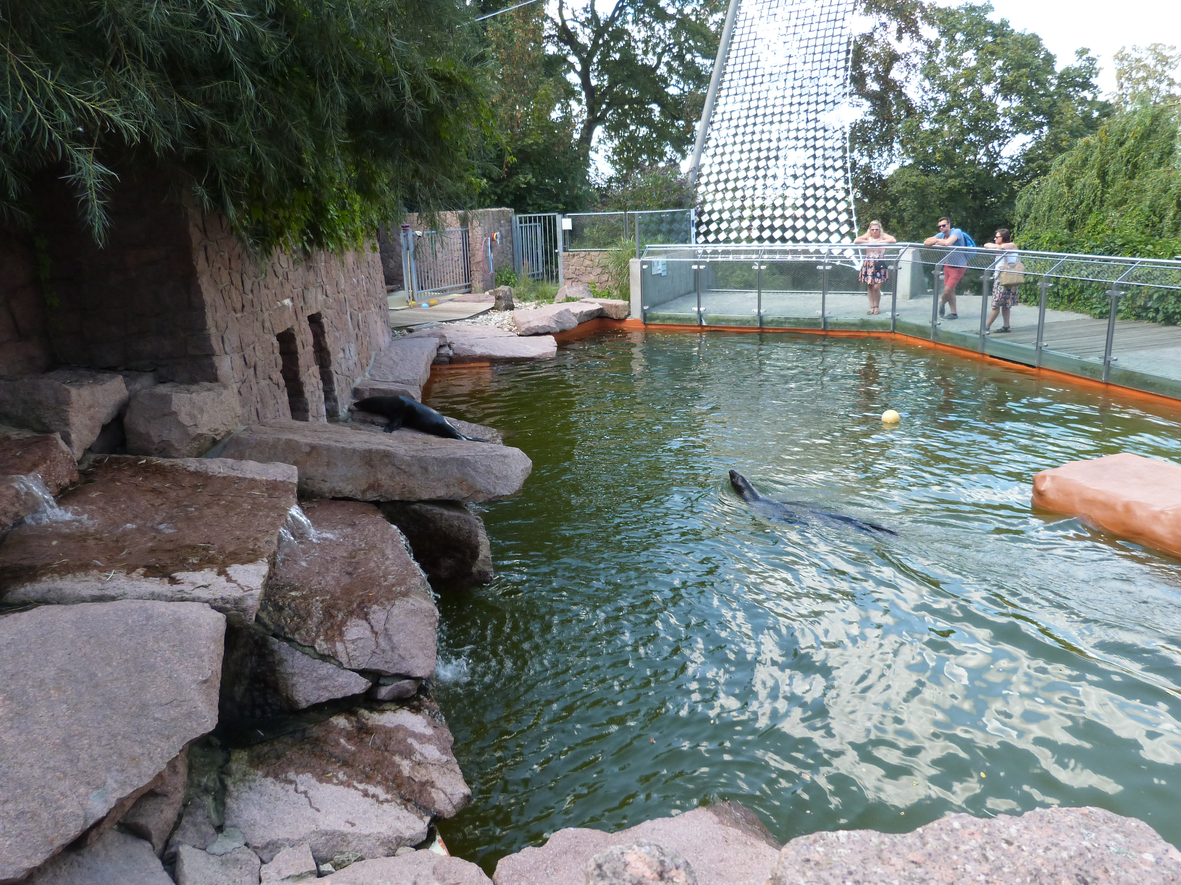 Area for the sea dogs in Zoo Halle (Saale)